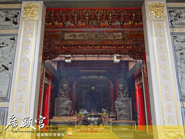 Works of stone of the temple's main building